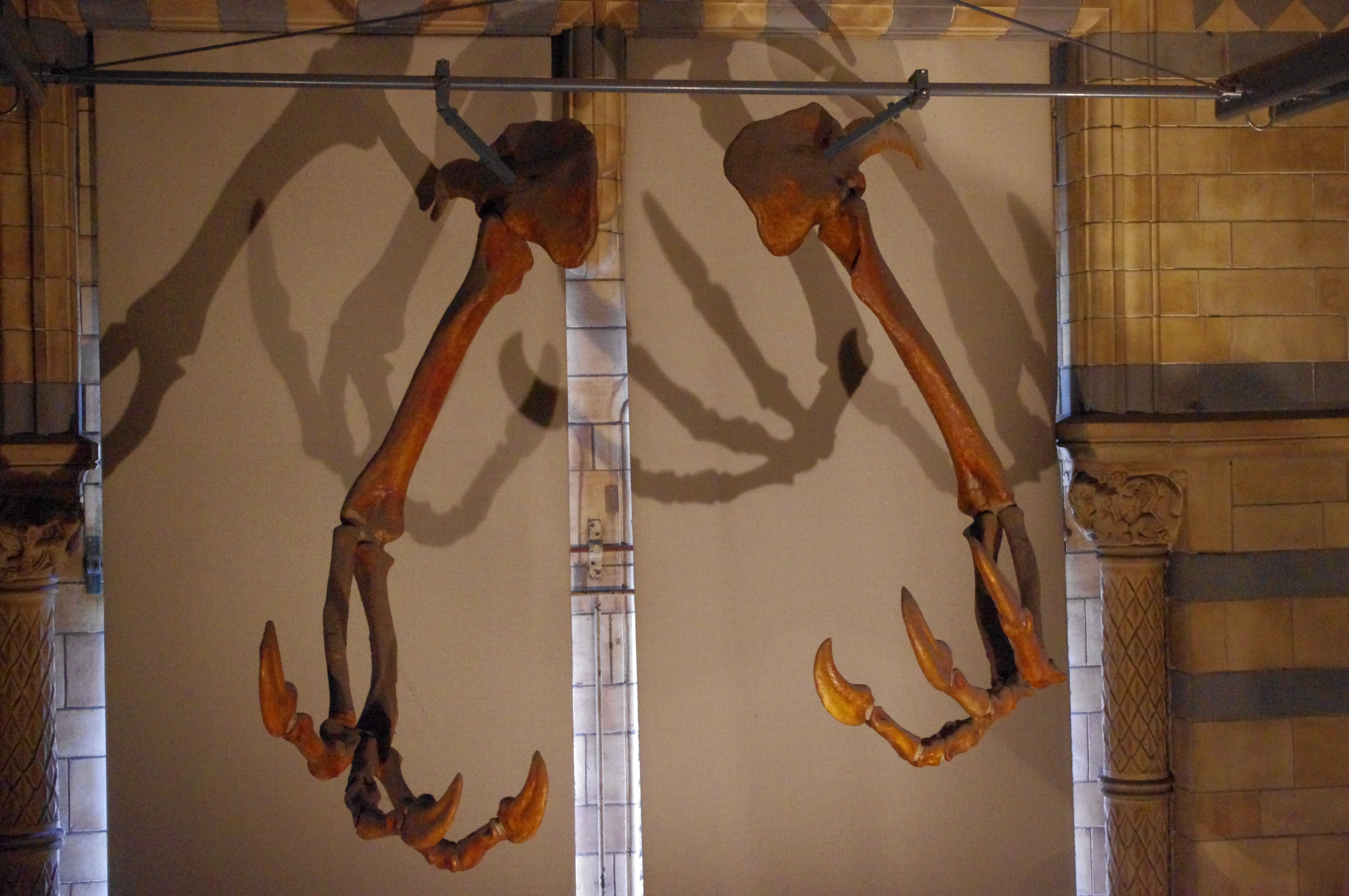 Deinocheirus Osmólska i Roniewicz, 1970 - Museum of Natural History, London